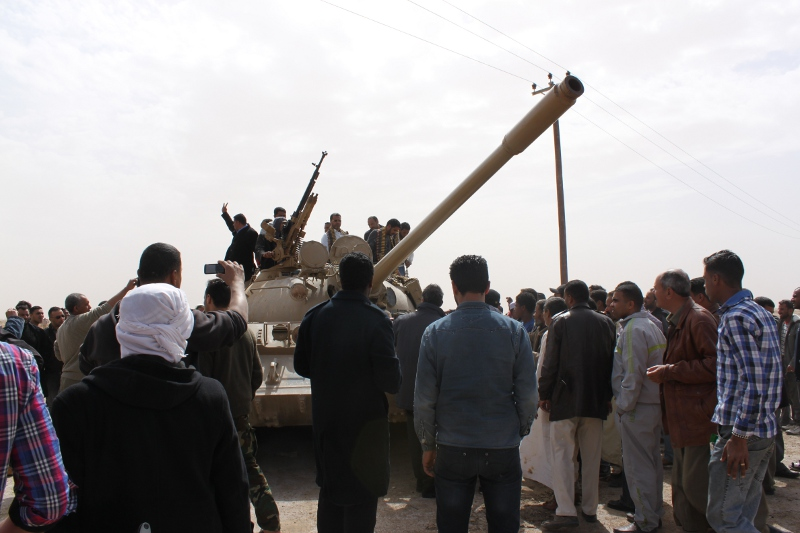 Armed rebels and civilian onlookers gathered at a main gateway into the eastern city of Ajdabiya to cheer on fighters heading onward to the fighting. At one point, rebels drove a tank back from the front, received loud cheers, left, and returned again with more people riding on top.